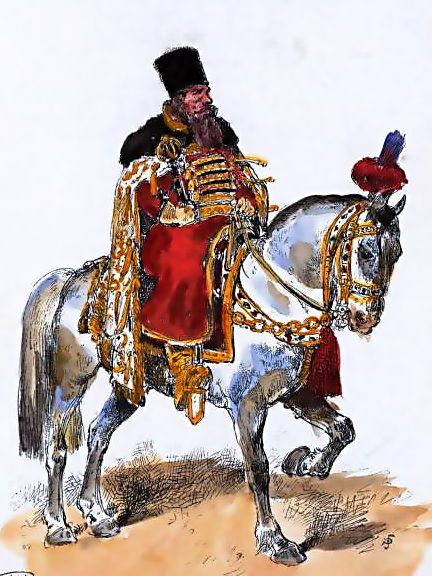 Russian boyar from XVII century